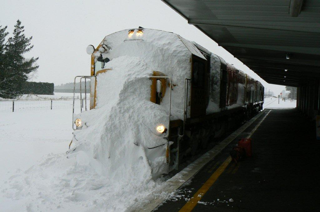 For three days last week we were completely isolated here in Greymouth. All the passes in and out were closed, the midland line was buried in snow and the airports were closed. Here’s one of my favourite shots of the snowfall, one of the midland line engines being used as a snow plough. Credit to my friend Colleen and driver Mike Kilsby of Otira for the shot.